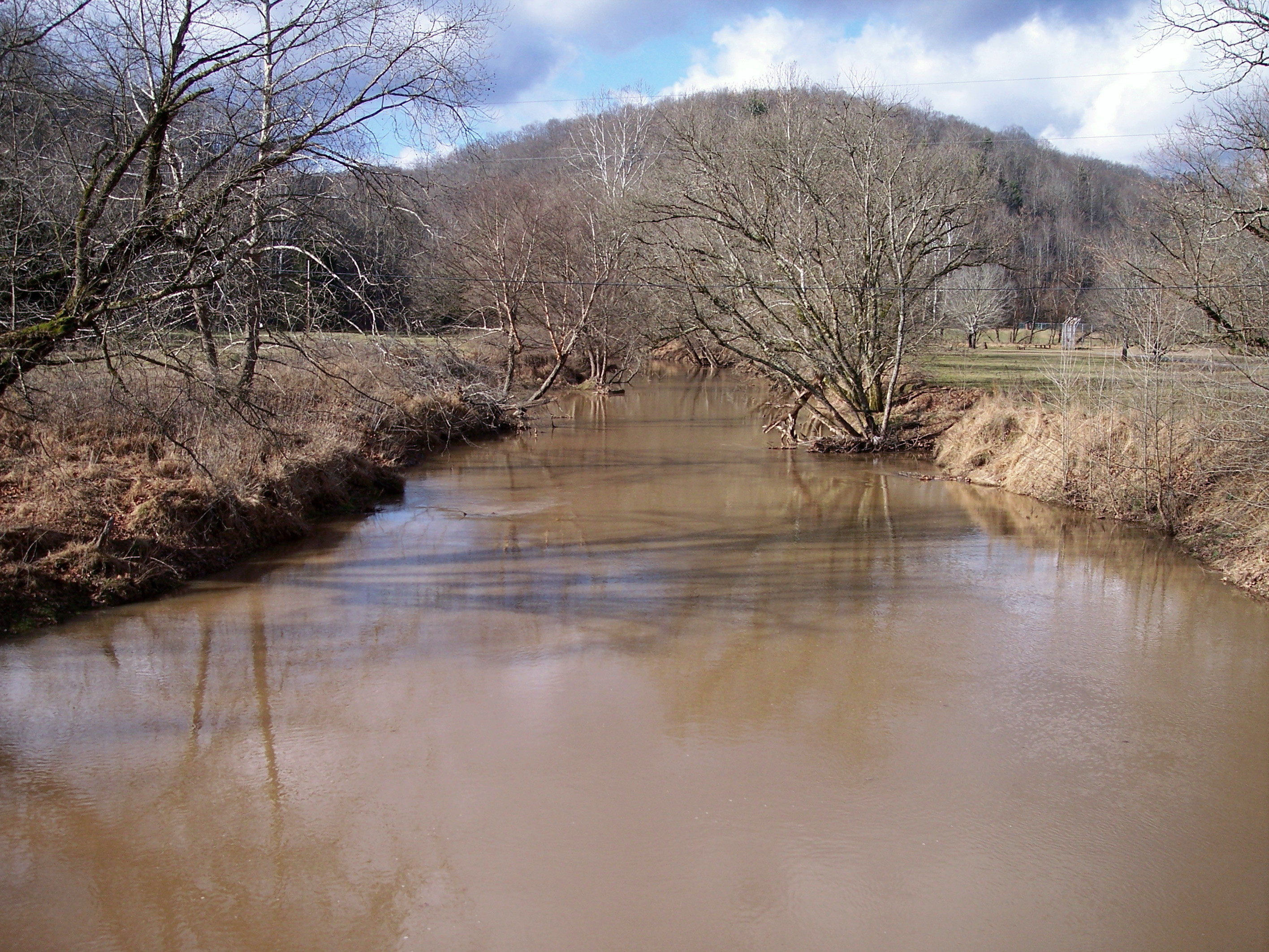 Cedar Creek as viewed from County Route 17/2 in Cedar Creek State Park in Gilmer County, West Virginia